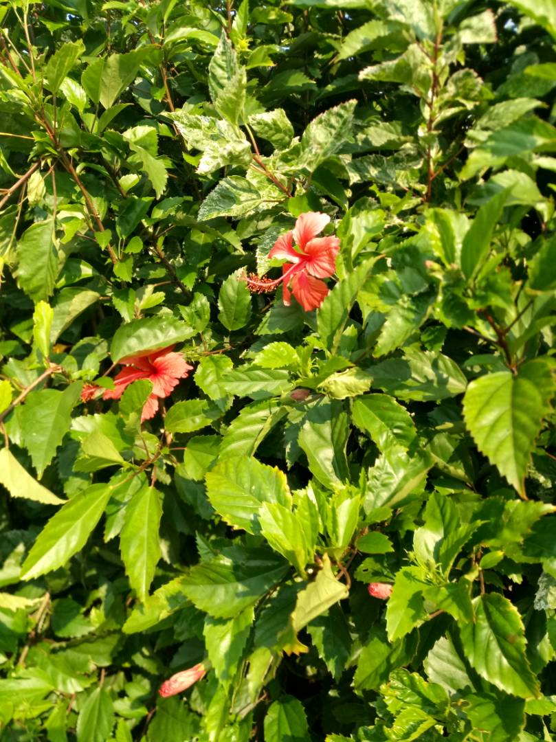 Picture of a rose flower found in down beach garden Limbe in the South West Region of Cameroon